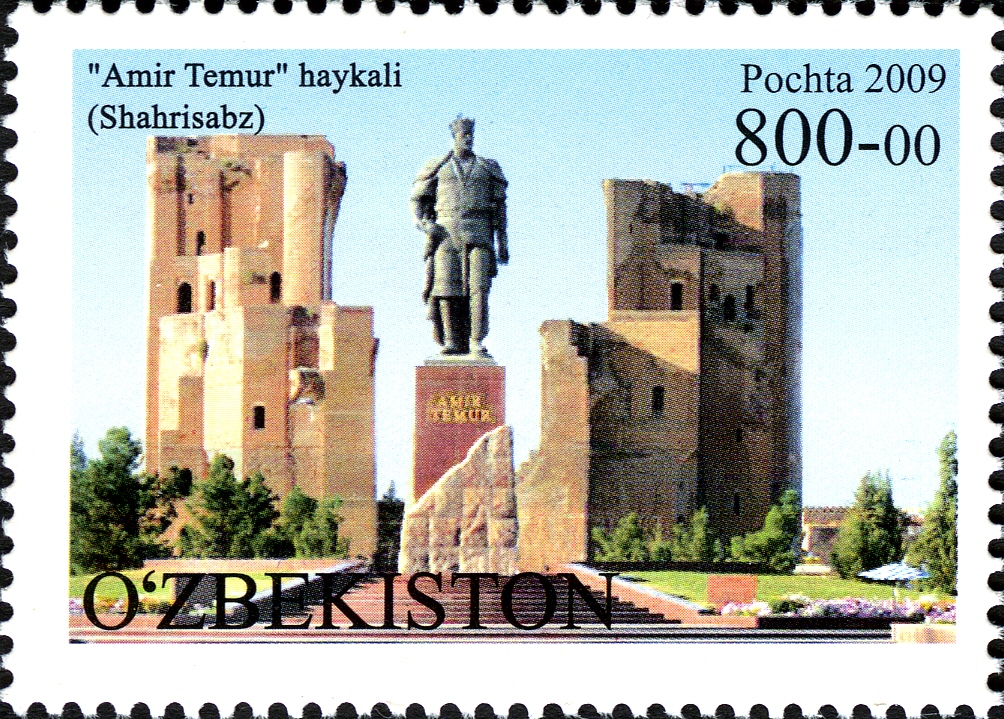 Stamps of Uzbekistan, 2010